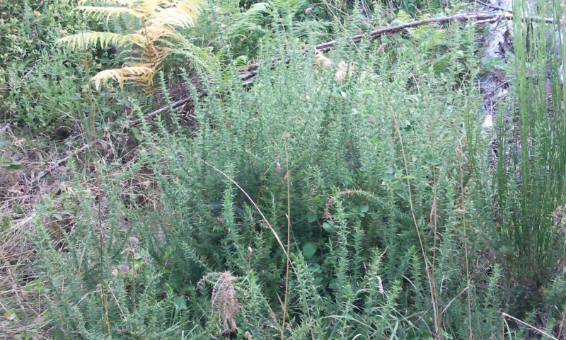 O Reboledo (Ourense)